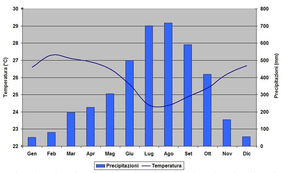 Climate diagram of Douala, Cameroon